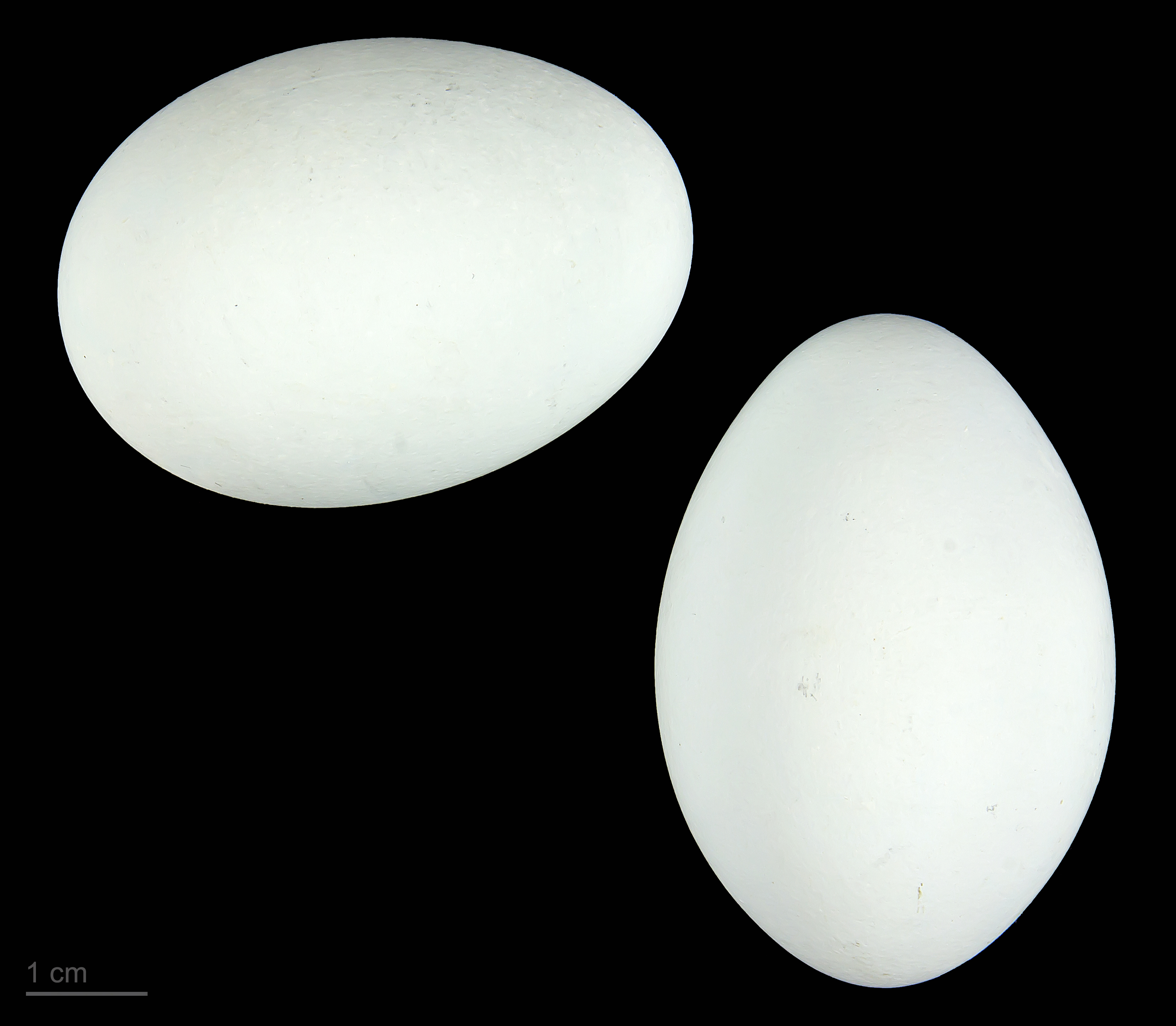 Eggs of yellow-billed egret Two specimens of the same spawn ; collection of Jacques Perrin de Brichambaut.